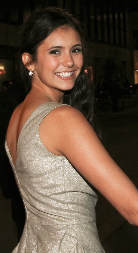 Nina Dobrev at the 2008 Toronto International Film Festival